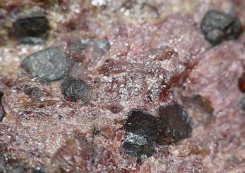 Zincite, Manganosite, Sonolite Locality: Trotter Mine (Lehigh Mine), Franklin, Franklin Mining District, Sussex County, New Jersey, USA (Locality at ) An interesting combination specimen with very rich, lustrous, curving sheets of Foliated Zincite (red), in a matrix of massive sonolite (pink - to the left side and bottom). Floating in the sonolite mass are sharp pseudocubic black crystals of the rare species Manganosite 10 x 6 x 4.5 cm